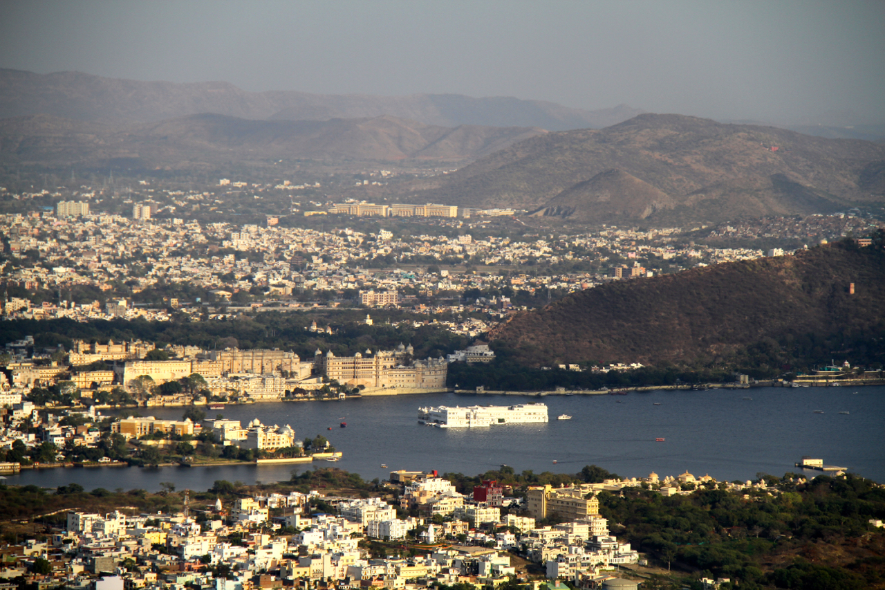 Udaipur city and neighboring Aravalli mountains region Lakes, villages, cities, rural parts of southeast and south Rajasthan Aravali range, Rajasthan India March 2015